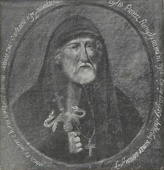 gr-kat biskup przemyski zm. 1652